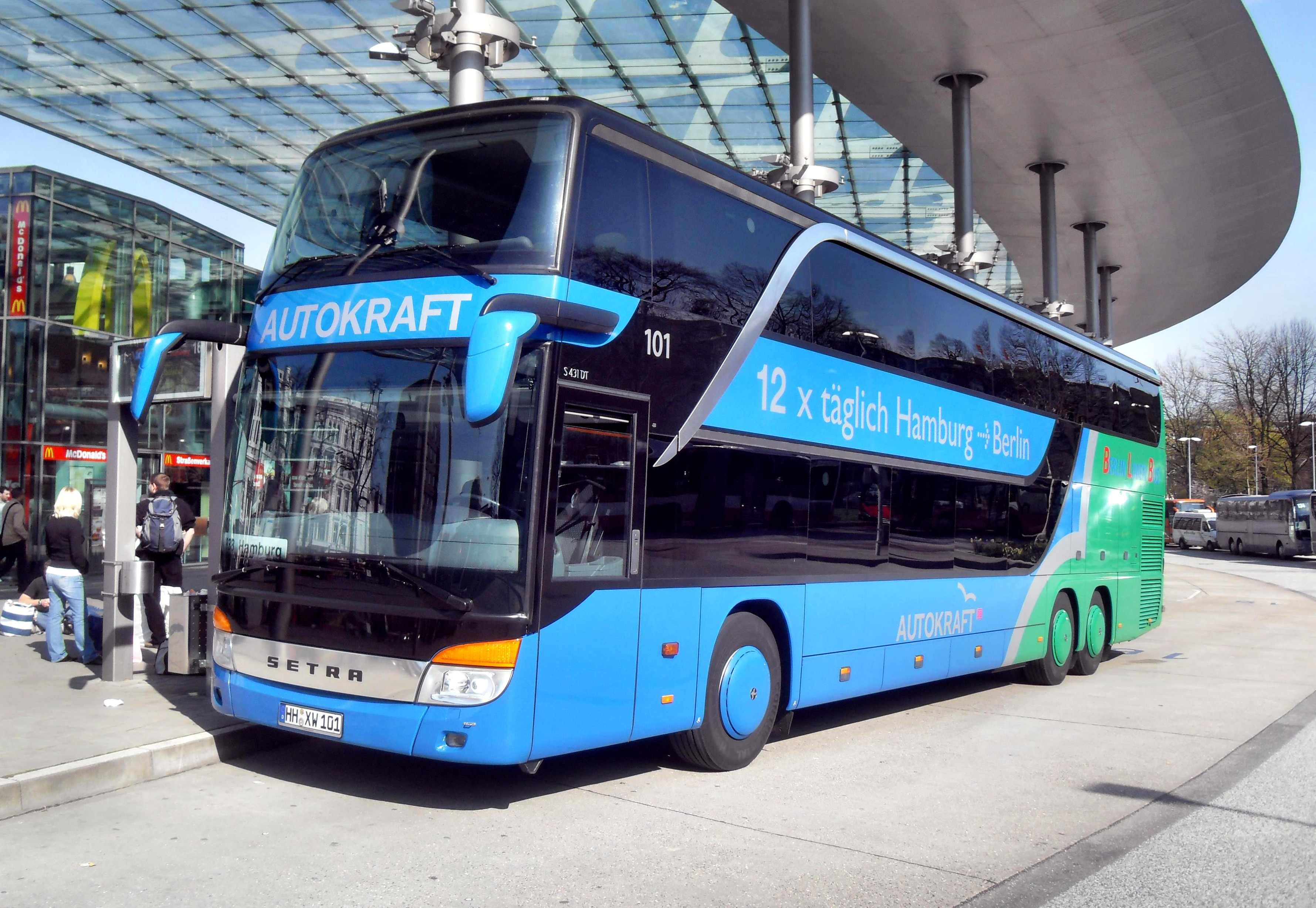 Setra S 431 DT coach (#101, reg. HH-XW 101) in Hamburg, Germany. Autokraft - BerlinLinienBus operator.